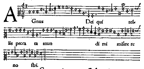 A section of the Agnus Dei from Missa L'homme armé super voces musicales as quoted in the Dodecachordon of Heinrich Glarean, p.442.